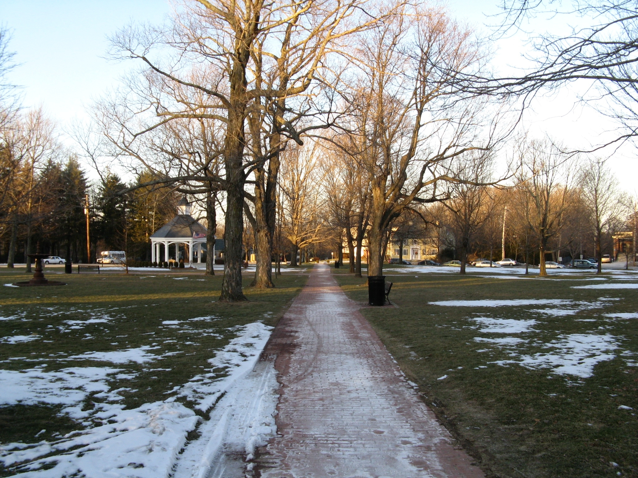 Town Common, Hopkinton Massachusetts